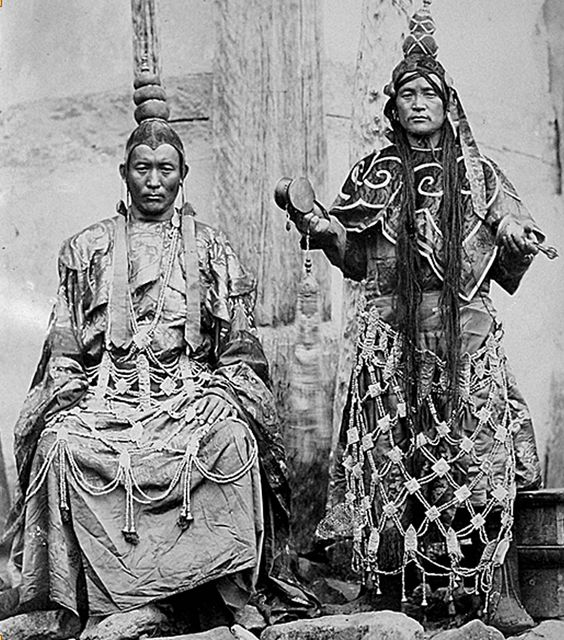 Lamas at Talung in Sikkim, East India. Johnston and Hoffman, Photograph, Sikkim, India, 1897. Royal Geographical Society. From Government of Sikkim Archives